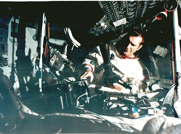 NASA astronaut Richard F. Gordon, Jr., working with a Hasselblad camera inside the Command Module Simulator at the Kennedy Space Center prior to the Apollo 12 mission, on which he served as Command Module Pilot (CMP). NASA photo S69-56702 in public domain.